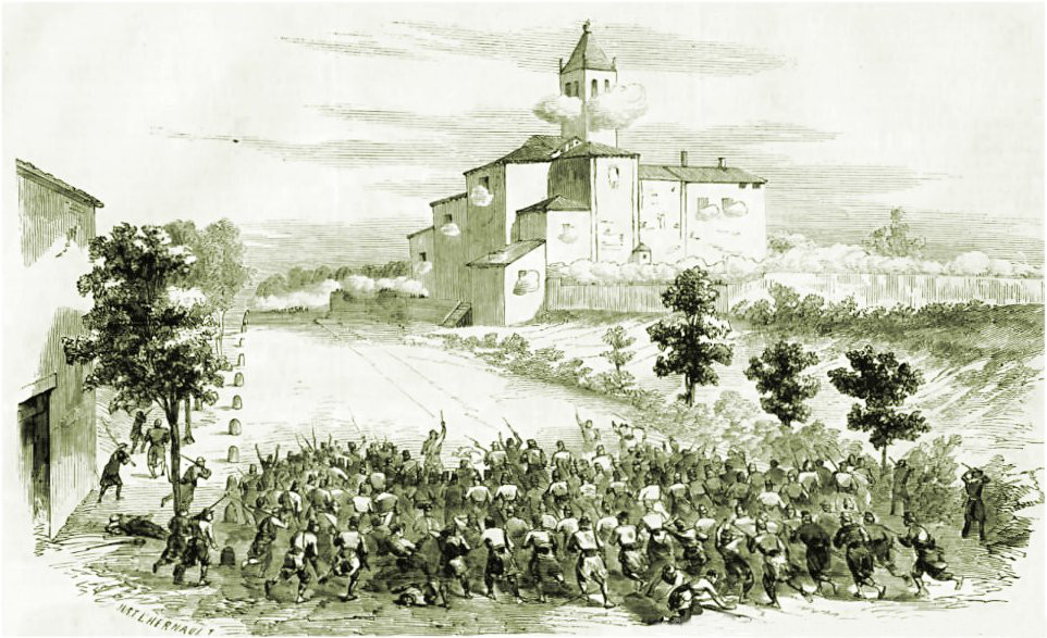 Second Italian War of Independence. Garibaldi's Hunters of the Alps repel the attack the Austrian division Urban and defeat at the Battle of San Fermo, 27 May 1859. Lithograph of the time reduced and modified.